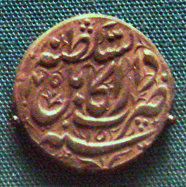 Kabul_silver_rupee_under_the_Durrani_Shahs_of_Afghanistan_18th_century.